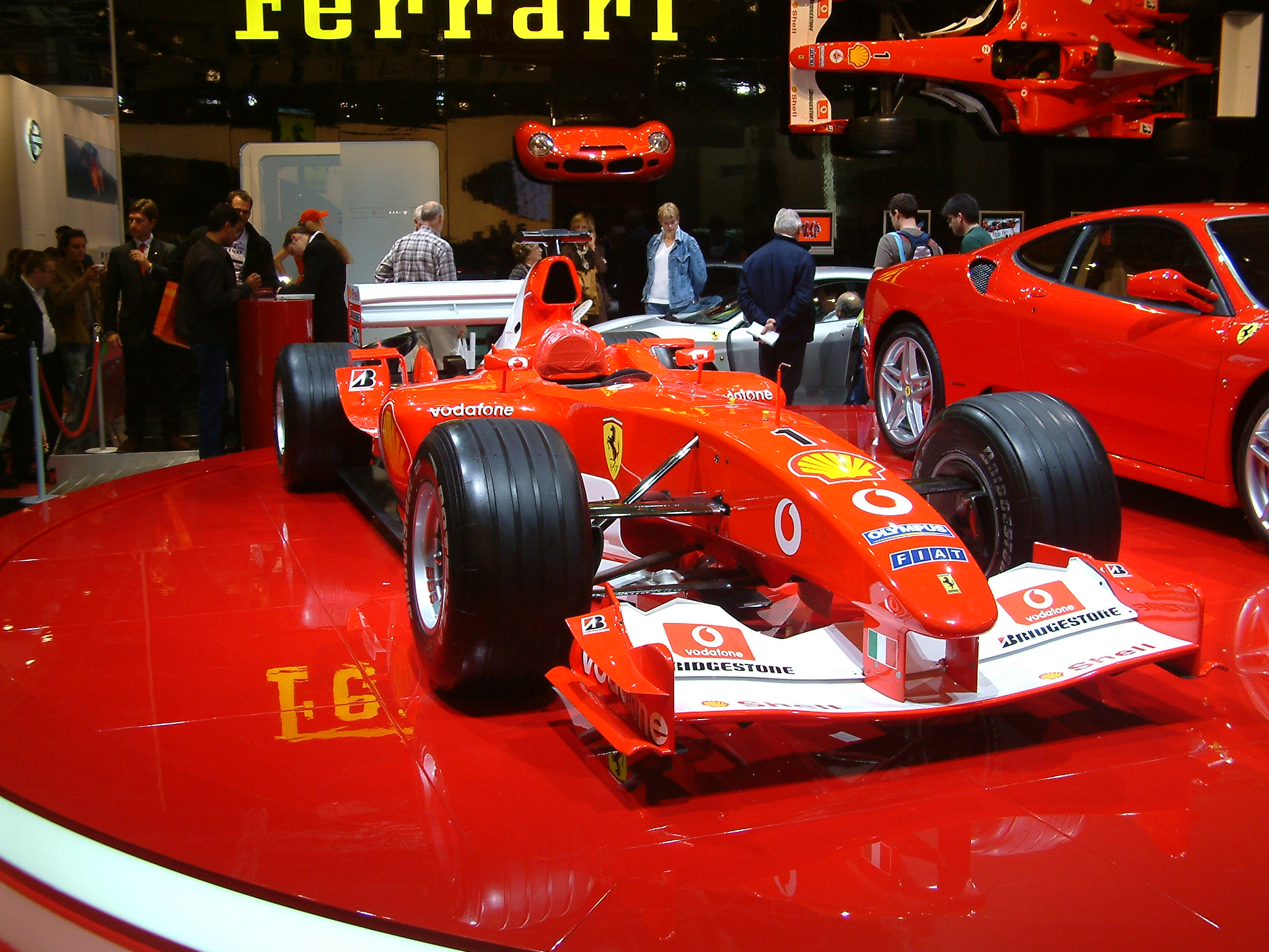 The Ferrari F2003-GA in Paris